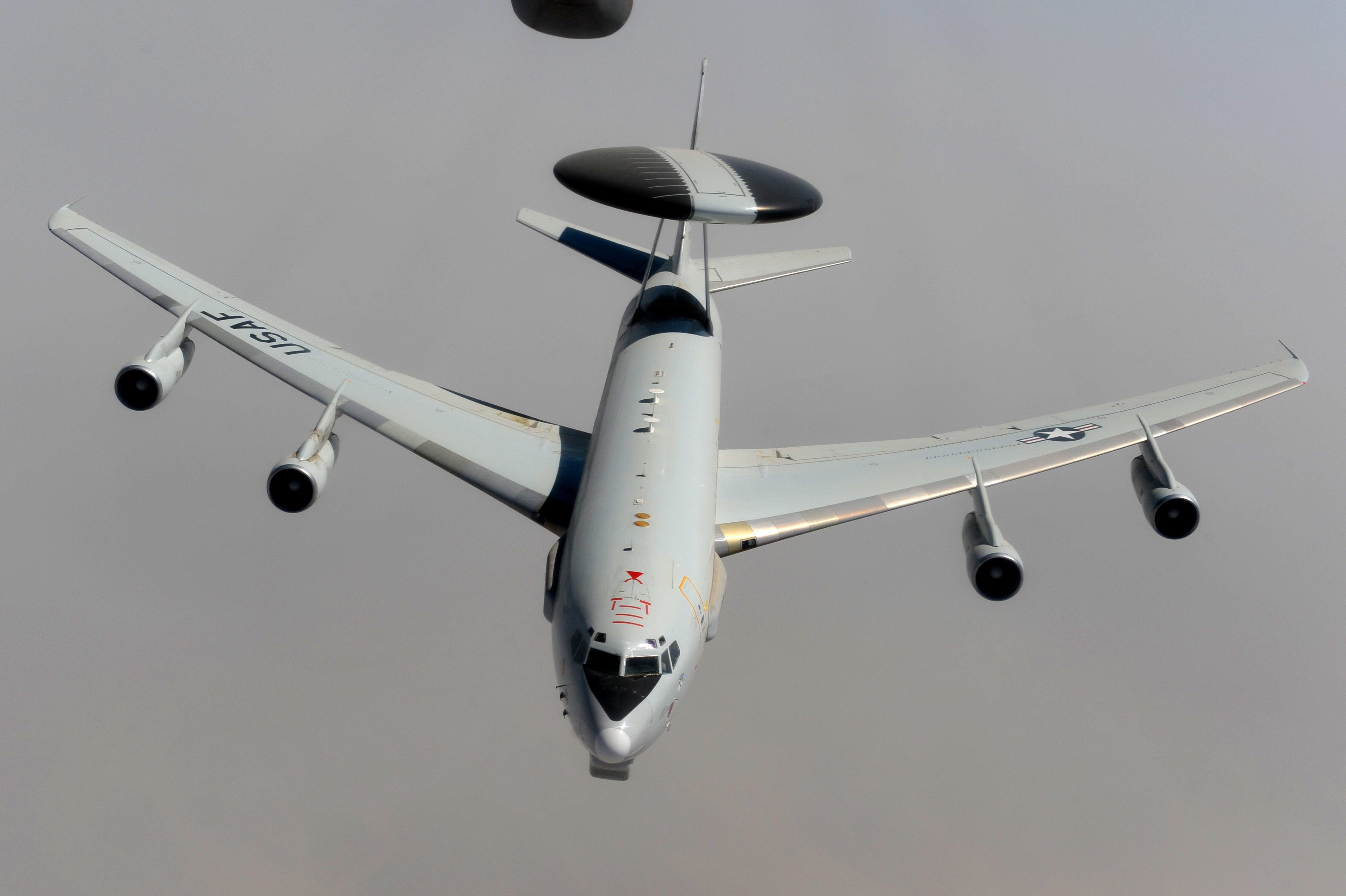 An E-3 Sentry, also known as airborne warning and control system or AWACS, from the 960th Expeditionary Airborne Air Control Squadron returns to its mission in support of Operation Enduring Freedom after being refueled by a KC-135 Stratotanker from the 340th Expeditionary Air Refueling Squadron, June 18, 2011. AWACS provides situational awareness of friendly, neutral and hostile activity, command and control of an area of responsibility, battle management of theater forces, all-altitude and all-weather surveillance of the battle space, and early warning of enemy actions during joint, allied, and coalition operations.